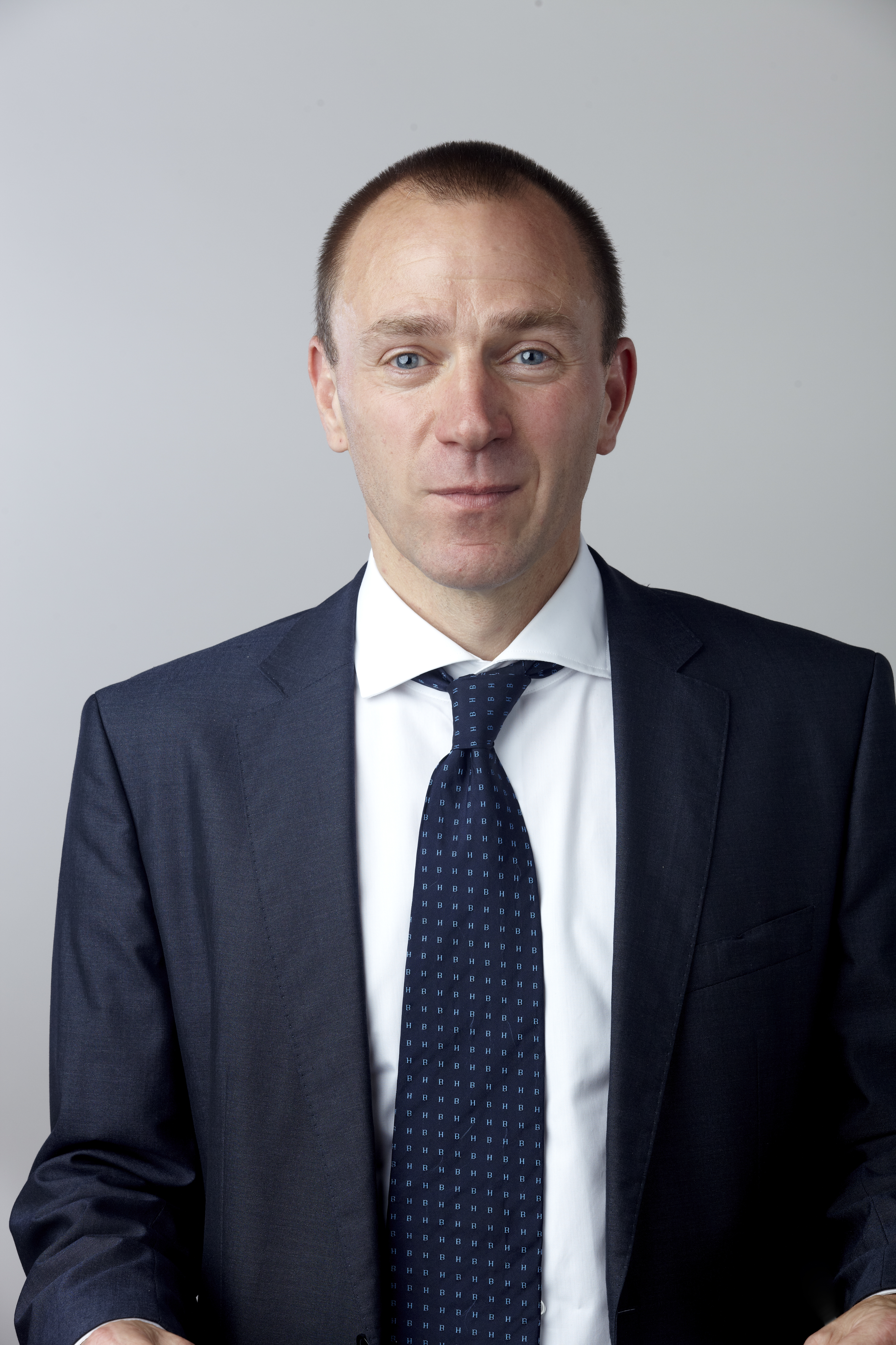 Professor David Beerling FRS, Royal Society Fellow elected 2014 Attribution: The Royal Society